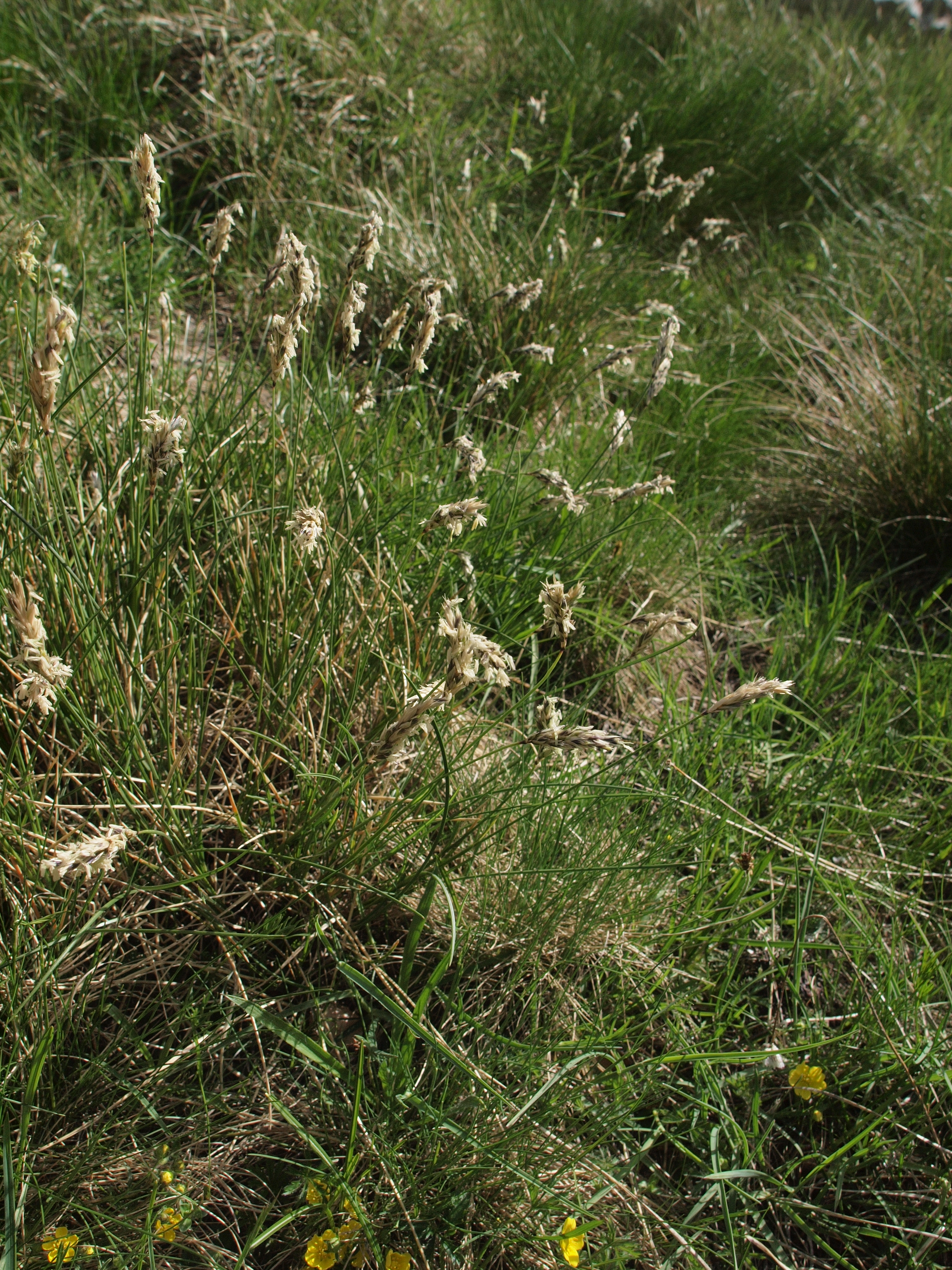 Sesleria juncifolia leg P.Cikovac Opuvani do Jastrebica Ridge Orjen